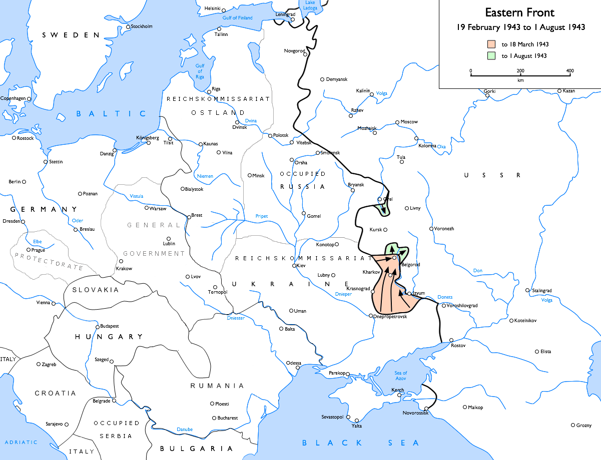 German advances on the Eastern Front (WWII), en:1943-en:02-19 to en:1943-en:08-01Drawn by User:Gdr